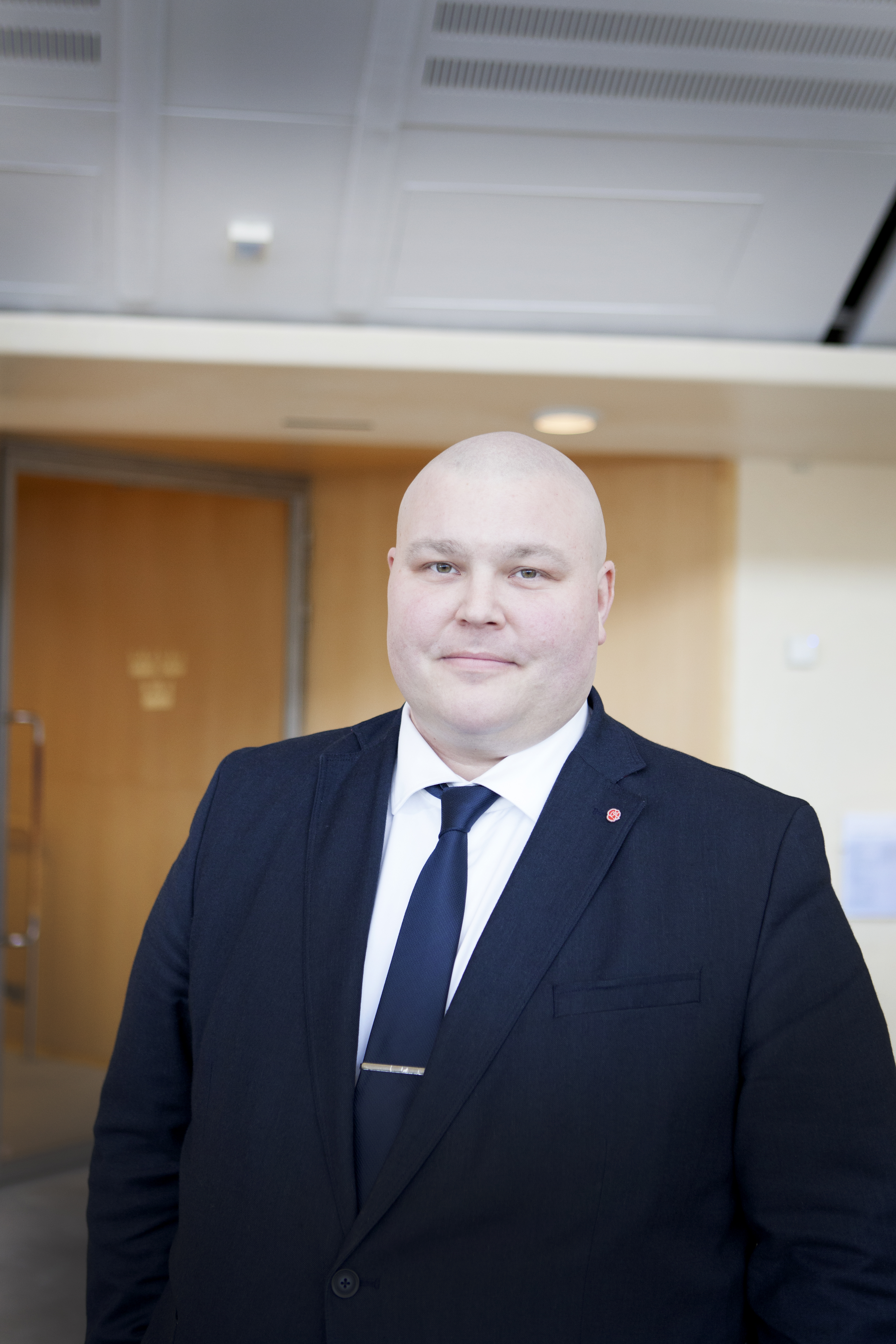 Björn "Böna" Petersson, member of Swedish Parliament